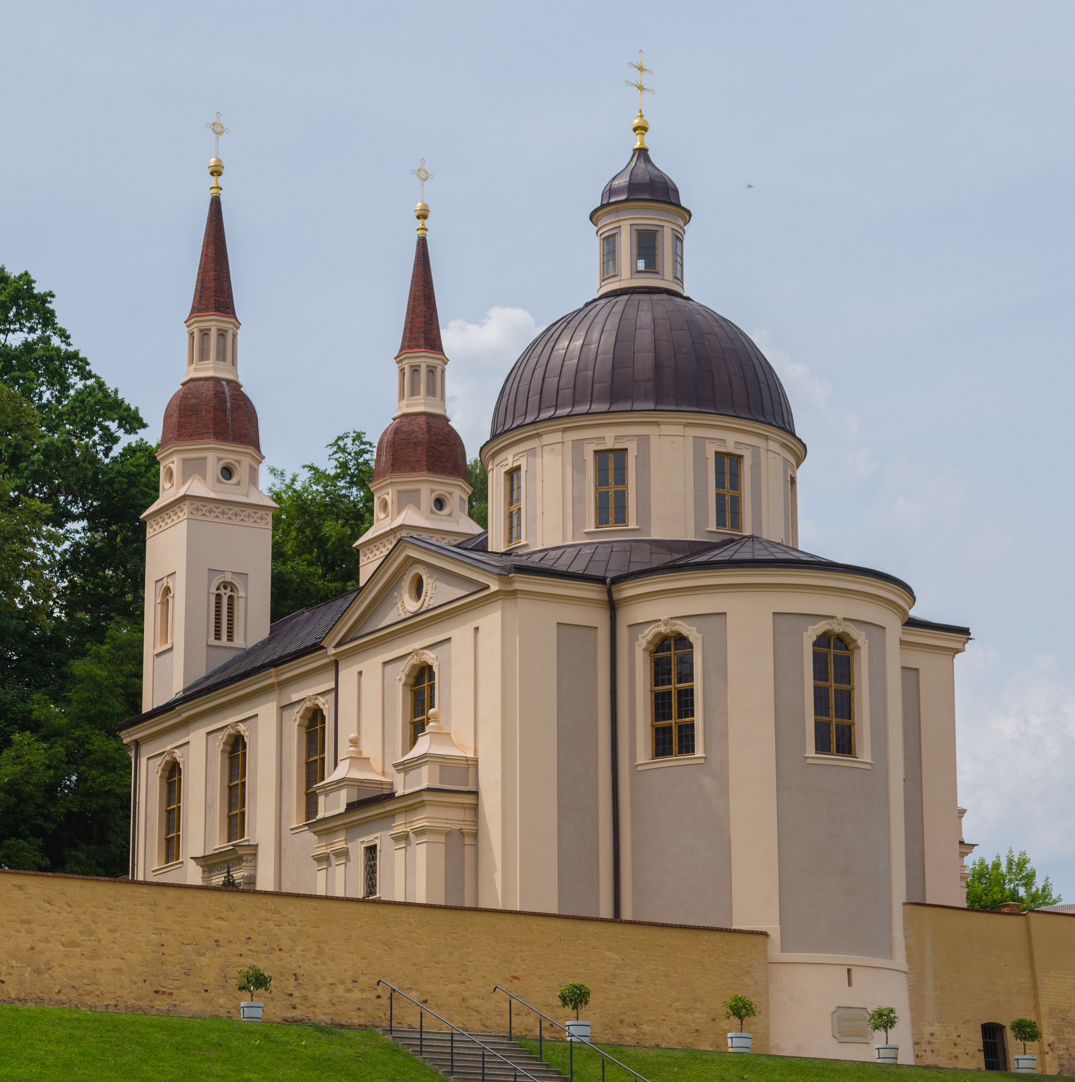 Protestant Parish Church of the Holy Cross (Evangelische Pfarrkirche zum Heiligen Kreuz) at Neuzelle Monastery (Kloster Neuzelle) in Neuzelle, Landkreis Oder-Spree, Brandenburg, Germany.